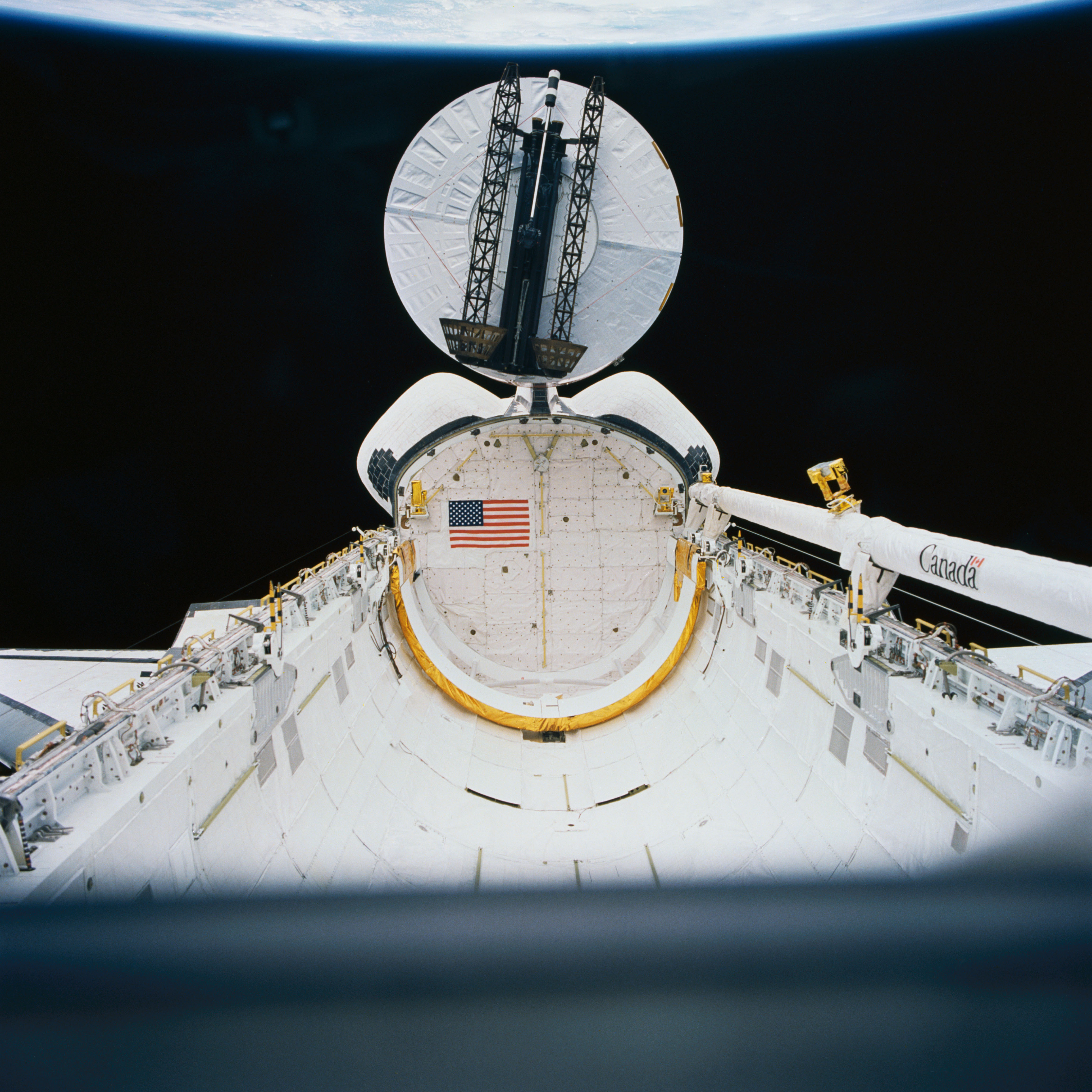 The Syncom IV-F5 satellite is deployed during the STS-32 mission. STS-32 payload, the SYNCOM IV-5 satellite, is deployed from Columbia's, OV-102's, payload bay (PLB). SYNCOM IV-5 is framed between OV-102's PLB and the Earth's limb as it rises above the orbital maneuvering system (OMS) pods and in front of the orbiter's vertical tail. On the port side sill longeron is the stowed remote manipulator system (RMS) arm.